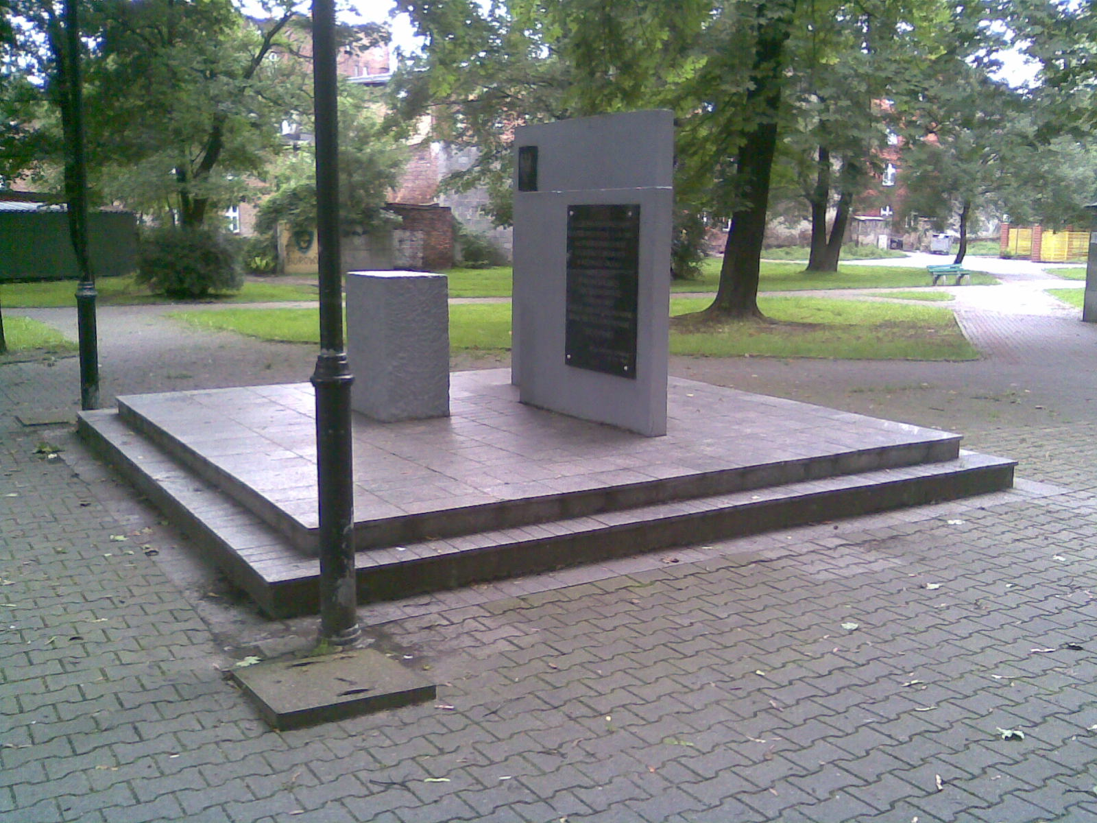 Monument of Second World War heroes of Katowice - Dąbrówka Mała